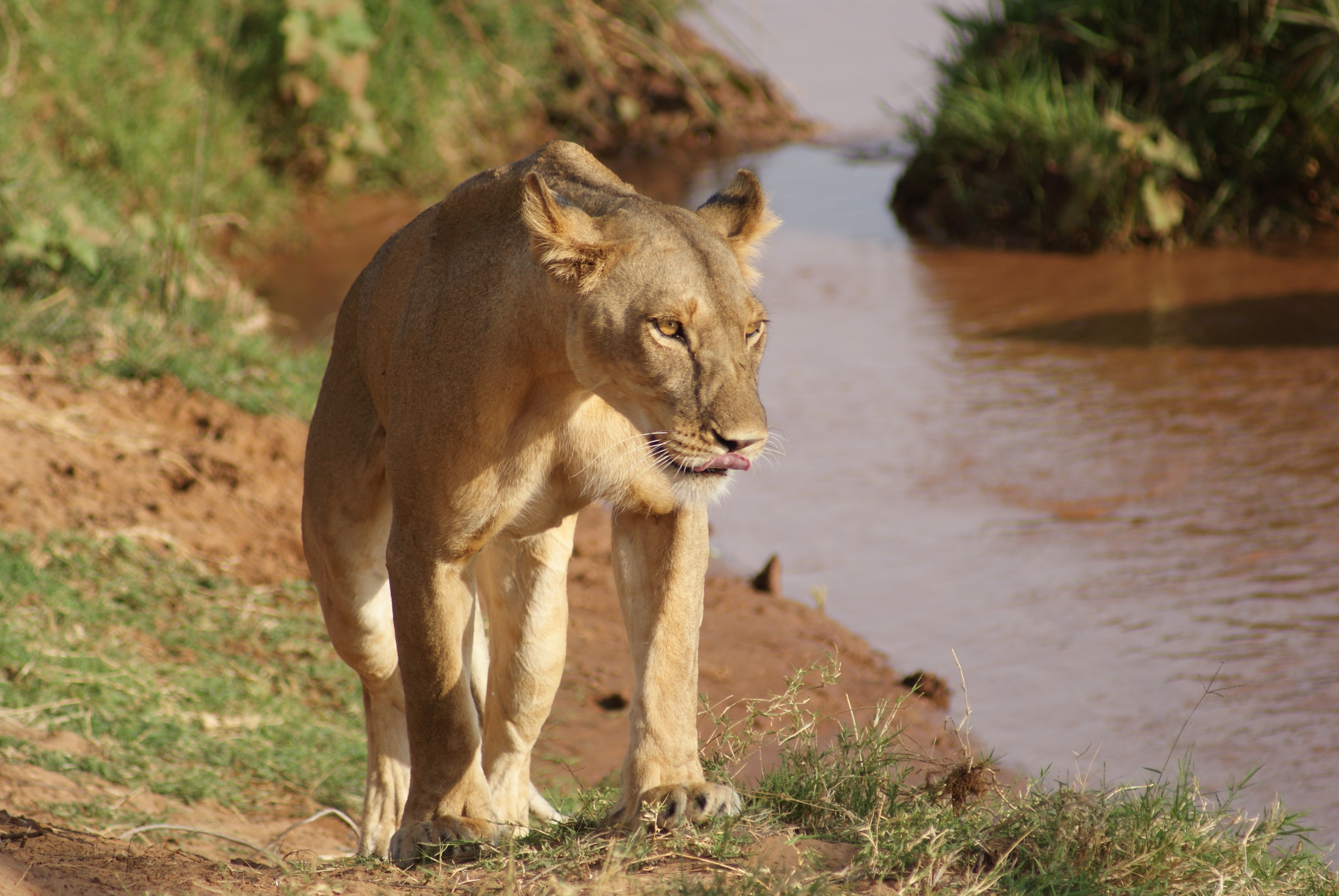 Lioness (Panthera leo) at Samburu National Reserve, Kenya